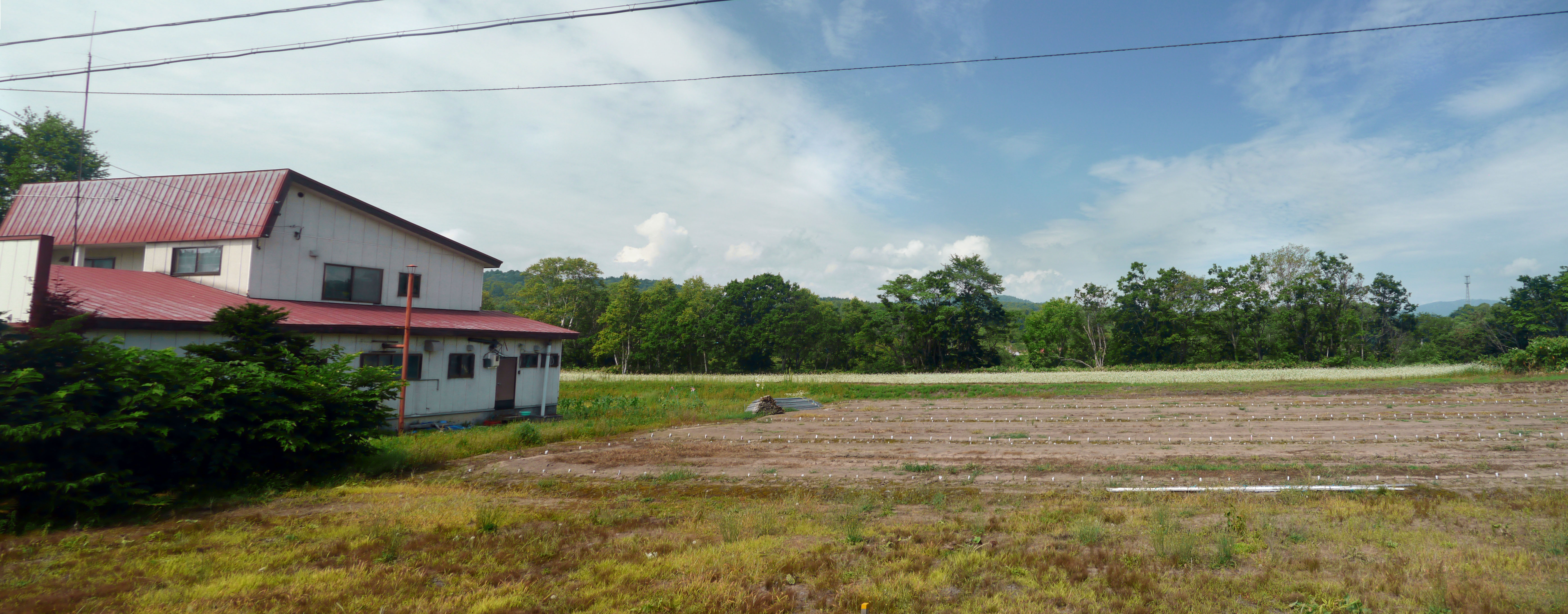 The former location of Uma Station of the Shinmei Line in Hokkaido, Japan.